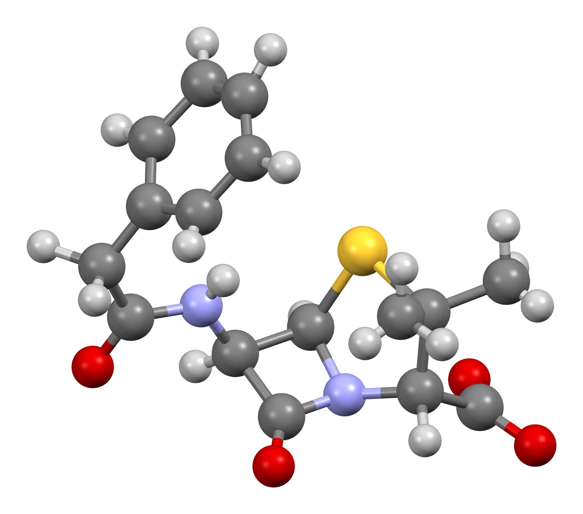 Ball-and-stick model of a benzylpenicillin anion, [C16H17N2O4S]− as found in the crystal structure of the potassium benzylpenicillin, reported in J. Chem. Soc. Perkin Trans. 1 (1978) 185-190 (CSD Entry: BZPENK01). Colour code: Carbon, C: grey Hydrogen, H: white Nitrogen, N: blue Oxygen, O: red Sulfur, S: yellow Model manipulated and image generated in CCDC Mercury 3.8.